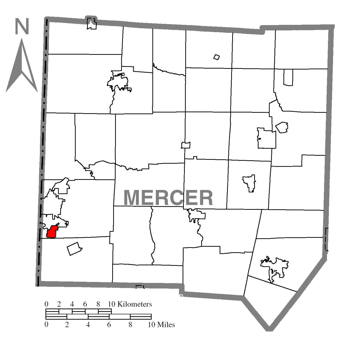 Map of Mercer County higlighting Wheatland.